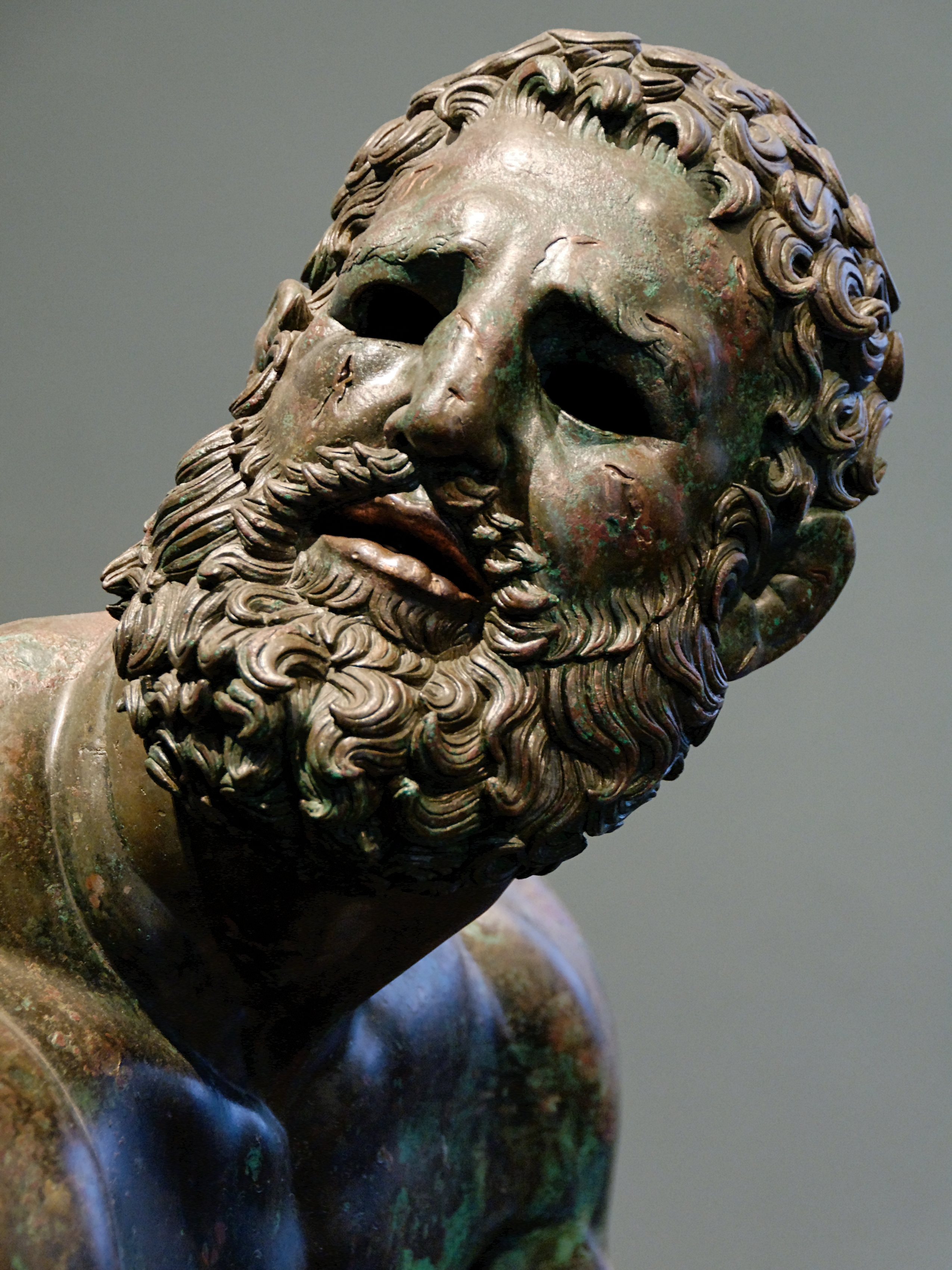 So-called “Thermae boxer”: athlete resting after a boxing match. Bronze, Greek artwork of the Hellenistic era, 3rd-2nd centuries BC (the boulder is modern and replicates the ancient one). From the Thermae of Constantine.